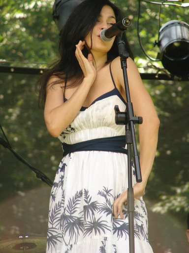 Show Marina de La Riva Power To the Peaceful. Data: 01/12/2007. Foto por Débora Morbi.